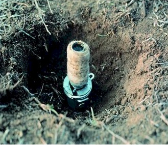 Closeup of a set M-44 device.